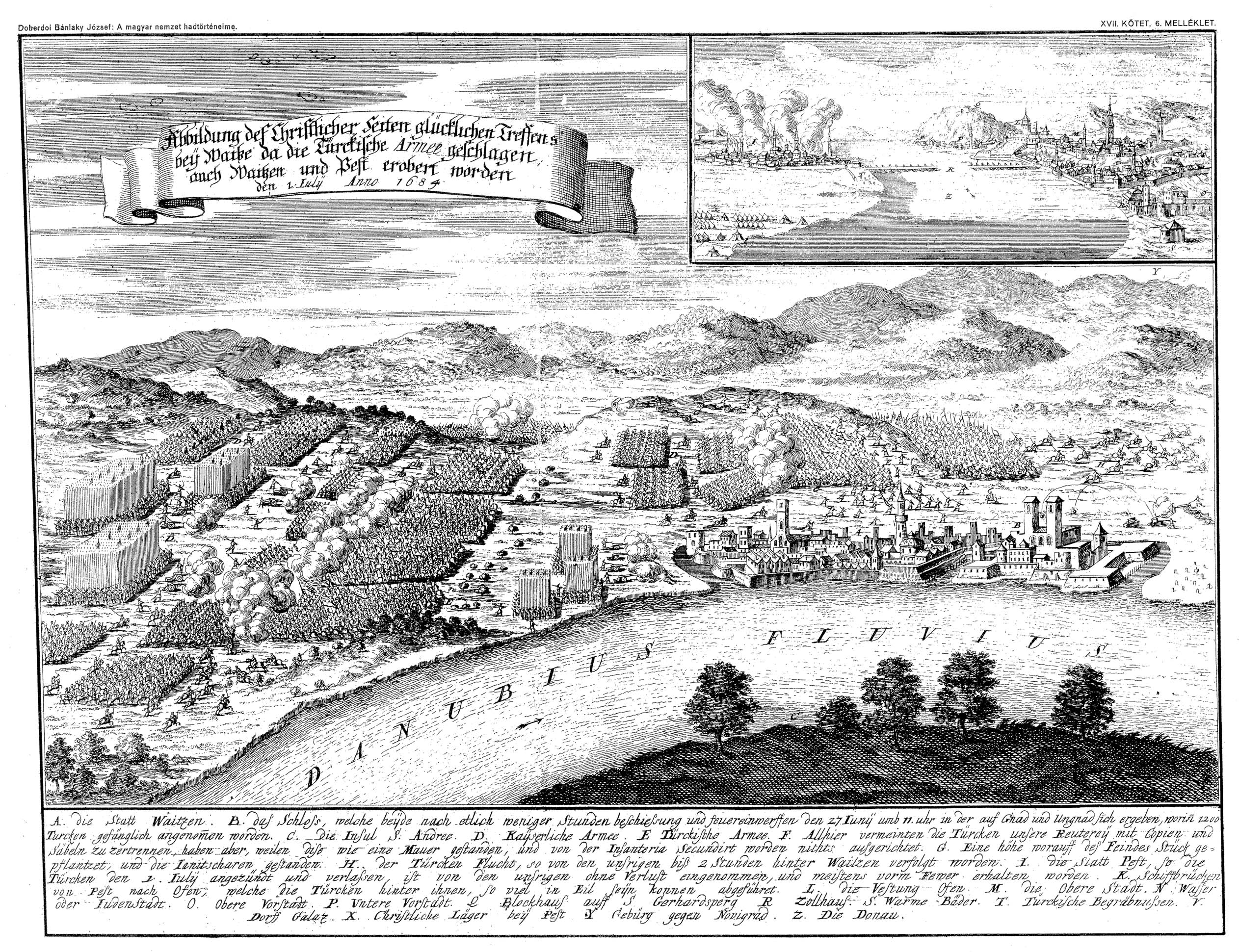 Battle of Vác (Waitzen) on 27 June 1684, introducing the siege of Buda 1684, in: József BÁNLAKY: A MAGYAR NEMZET HADTÖRTÉNELME (Military History of the Hungarian Nation).